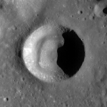 Probable concentric crater Leakey on the Moon, on highlands between Mare Nectaris, Sinus Asperitatis, Mare Tranquillitatis and Mare Fecunditatis. Its diameter is 12.5 km. It is not included in the list of concentric craters by Wood, 1978. Photo by Lunar Reconnaissance Orbiter, made with Wide Angle Camera on 7 June 2011 from altitude 40 km. Sun elevation is 17.5°. Width of the photo is 22 km, north is approximately up.